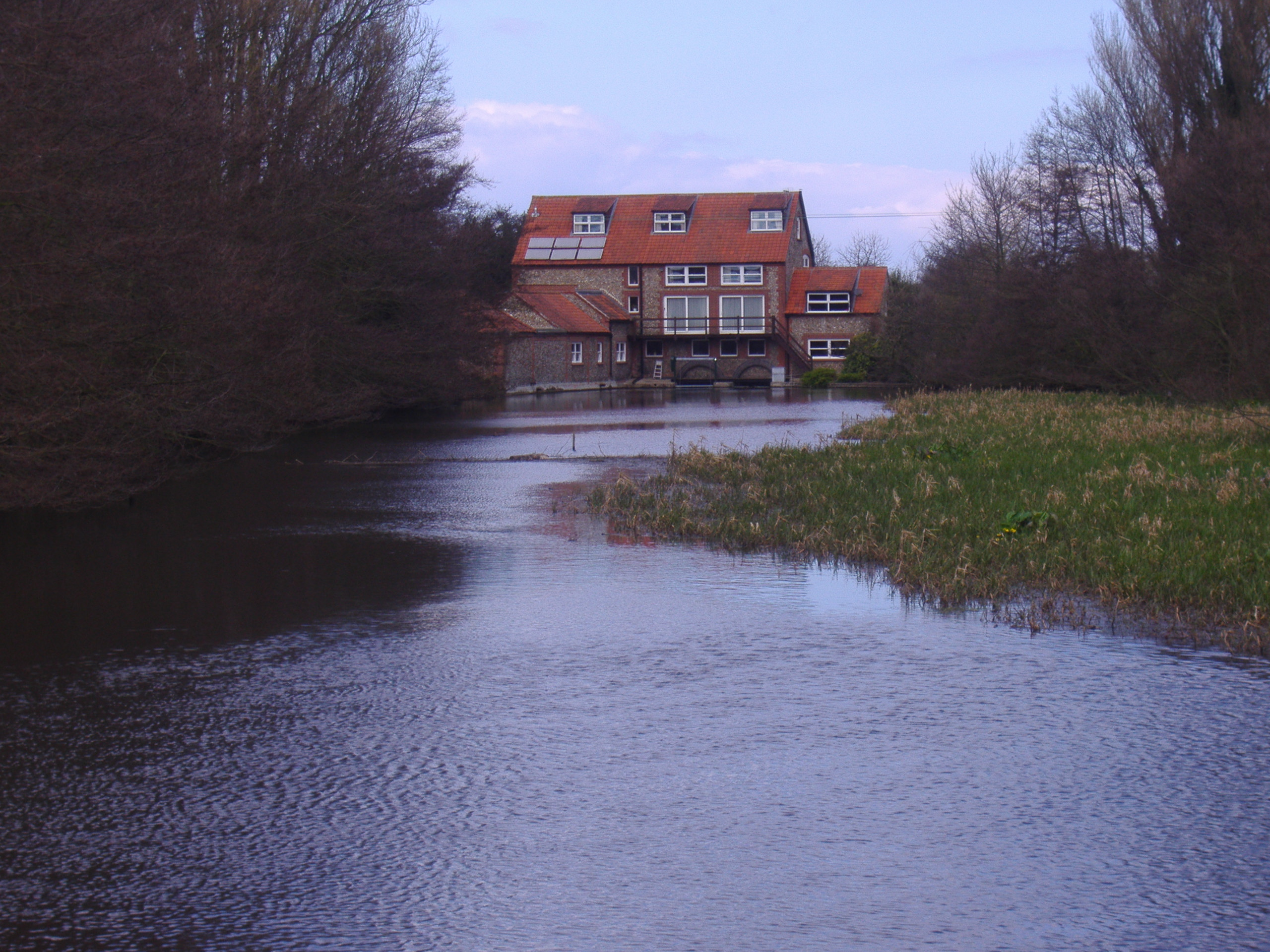 A Digital photograph of Glandford Watermill on the River Glaven in the county of Norfolk taken on the 12th April 2008 by Stavros1 (talk) 20:07, 12 April 2008 (UTC)